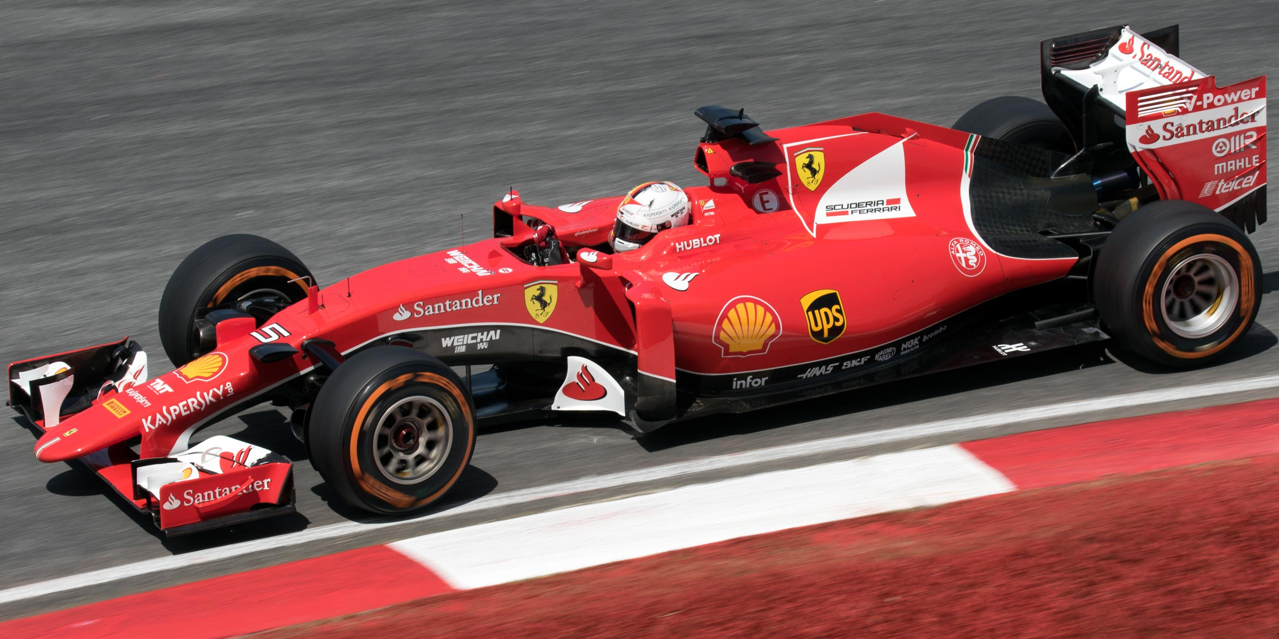 Formula One 2015 Rd.2 Malaysian GP: Sebastian Vettel (Ferrari)